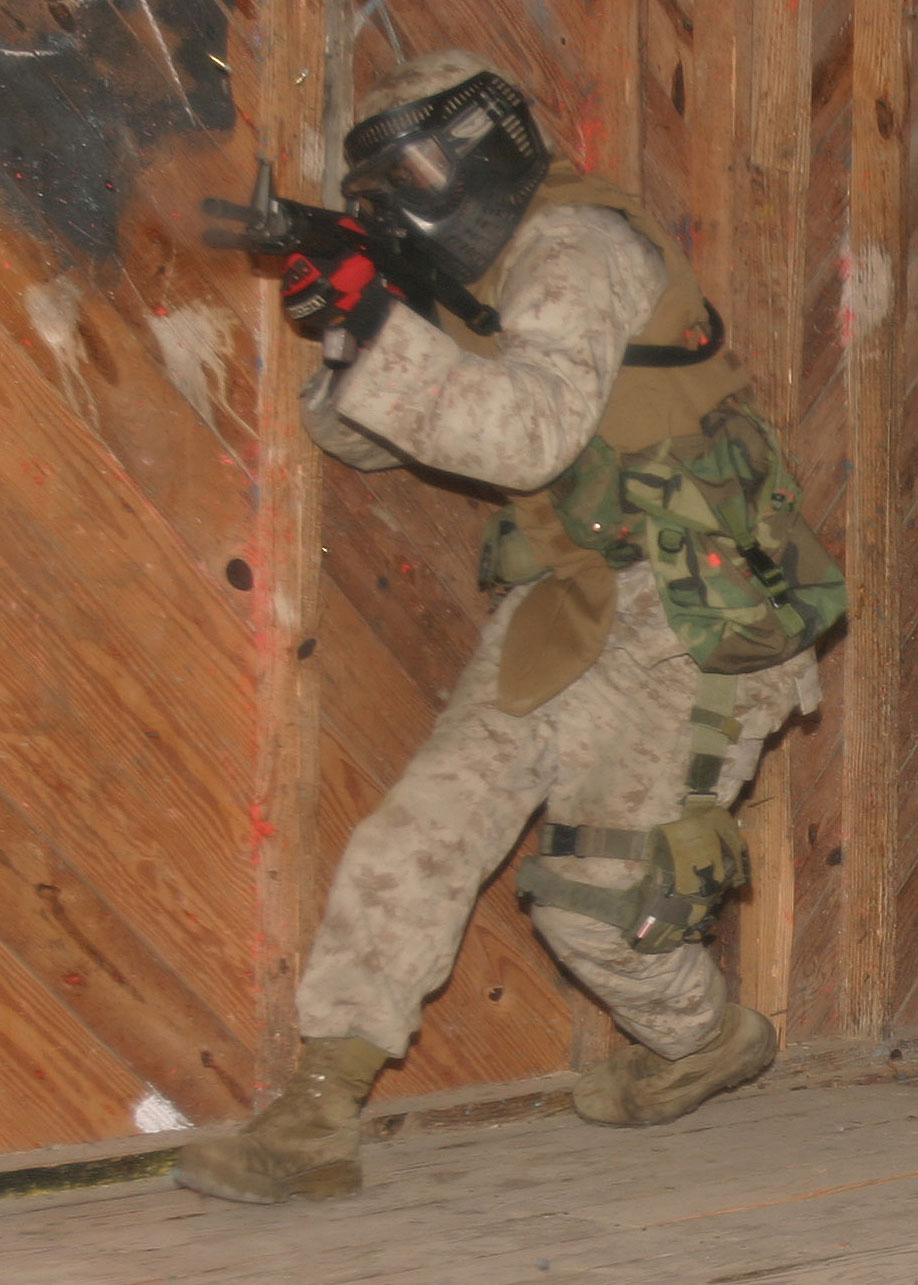 MARINE CORPS BASE CAMP LEJEUNE, N.C. -- A Marine from Team 3 of the Foreign Military Training Unit, 4th Marine Expeditionary Brigade (Anti-Terrorism), negotiates his way through a simulated City Hall building at Combat Town here. Room-to-room house clearing teqniques are just one of the few skills the FMTU Marines learn during training.